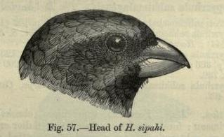 Haematospiza sipahi head